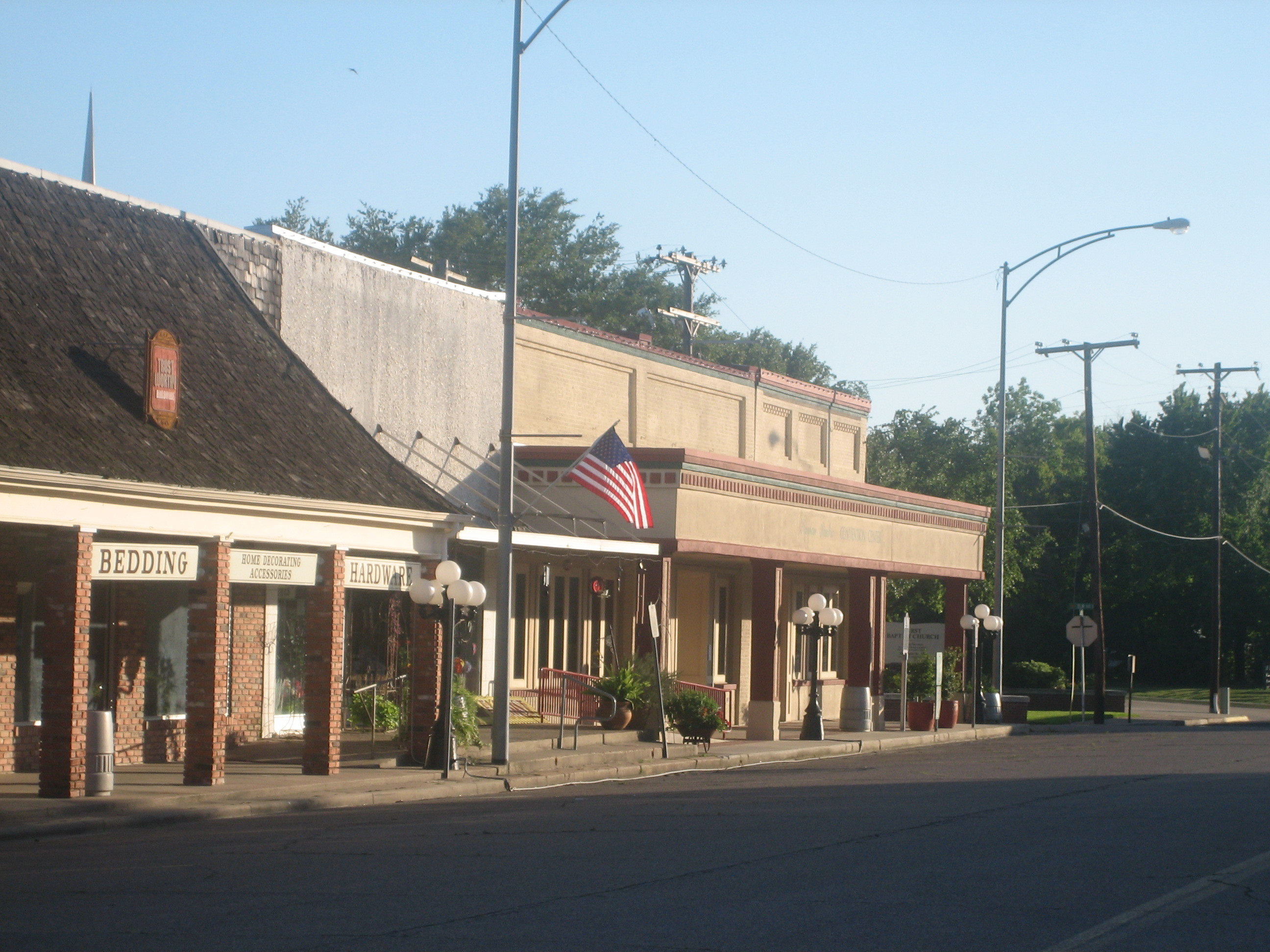 South side of 100 West block of Trinity Street, Madisonville, Texas, looking west towards Elm Street.